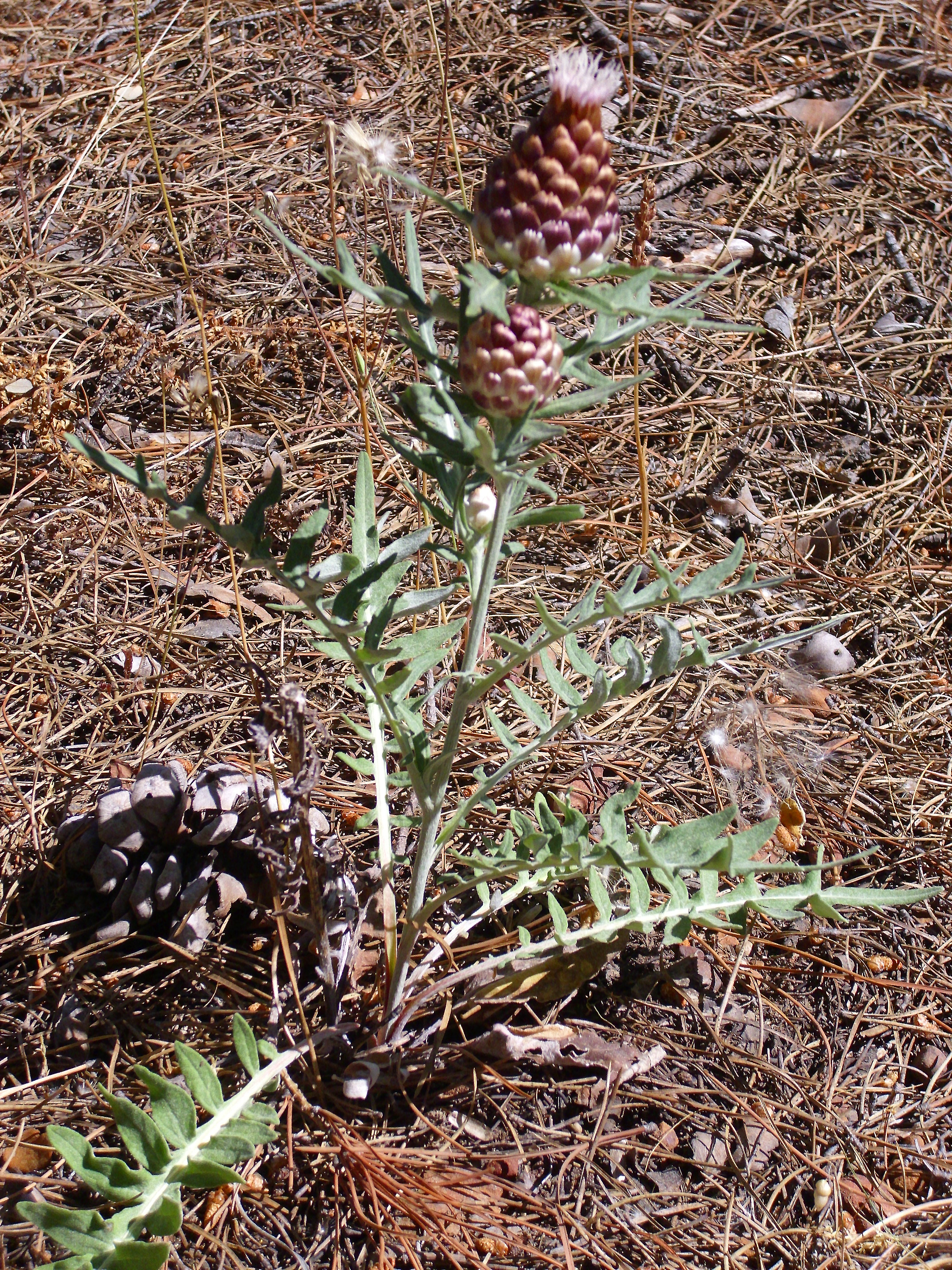 Rhaponticum coniferum Habitat, Dehesa Boyal de Puertollano, Spain